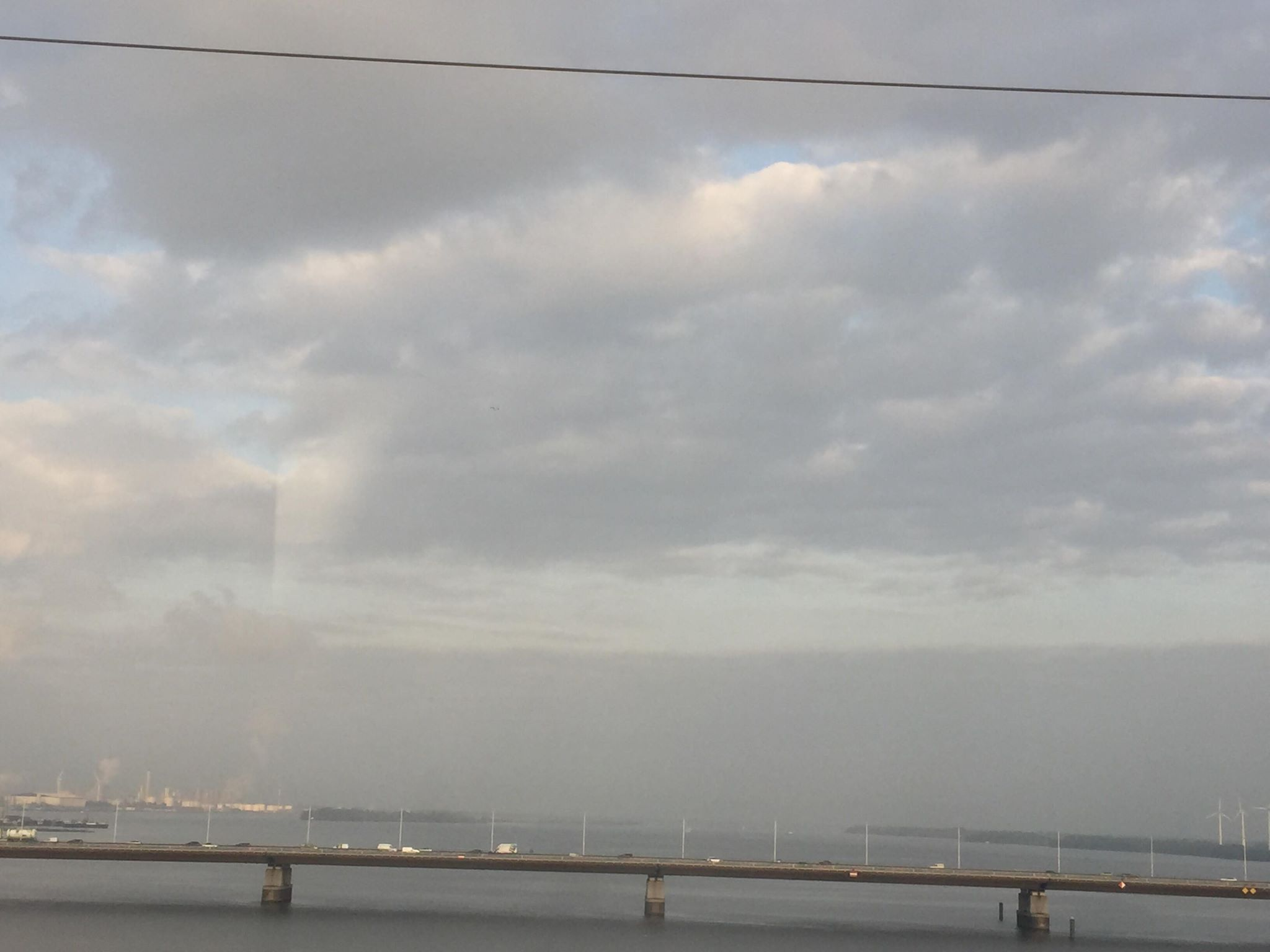 Meuse forming the Hollands Diep